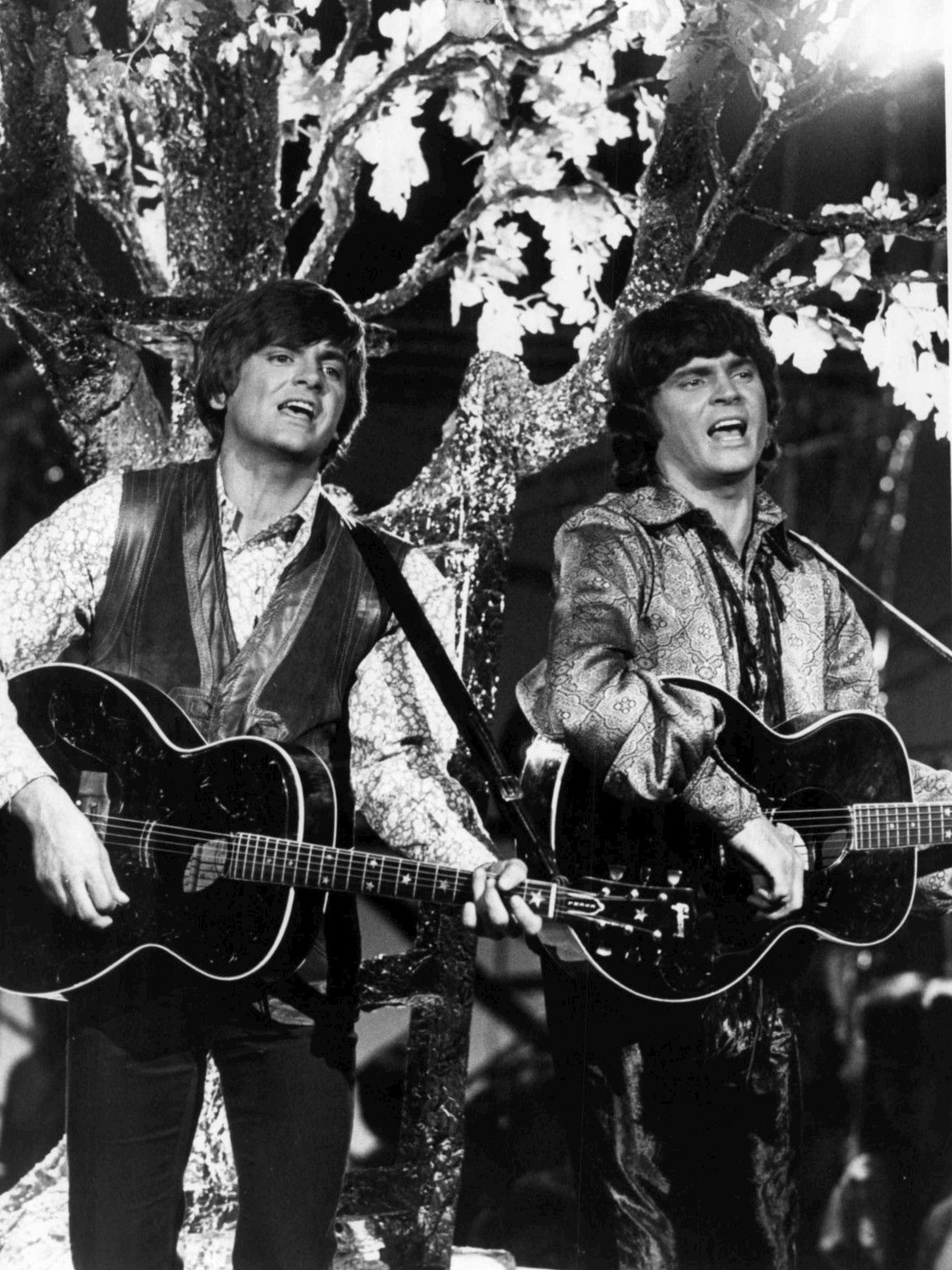 Publicity photo of the Everly Brothers. Their television show was a summer replacement for Johnny Cash's.